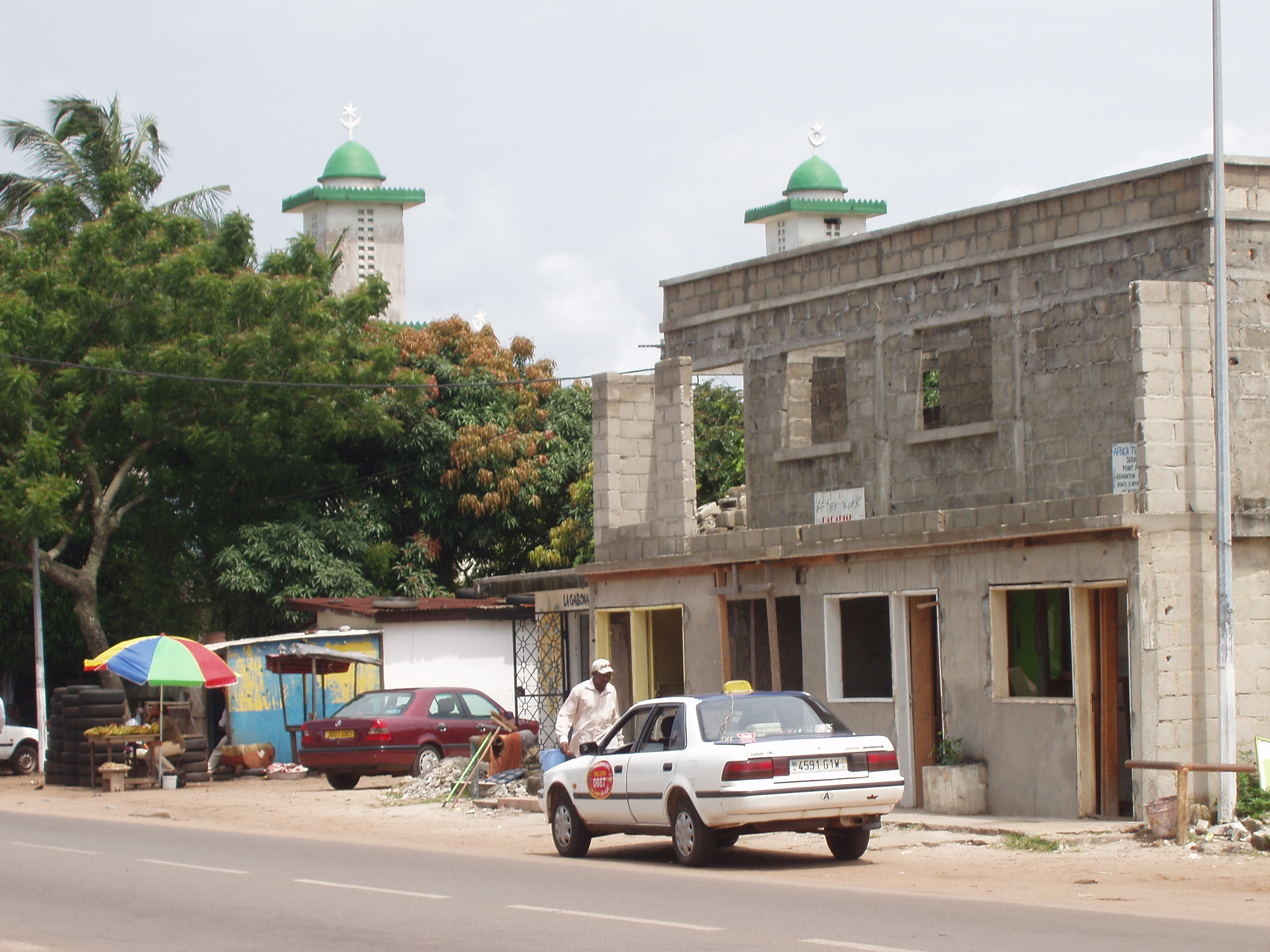 Mosquee in Port-Gentil Gabon